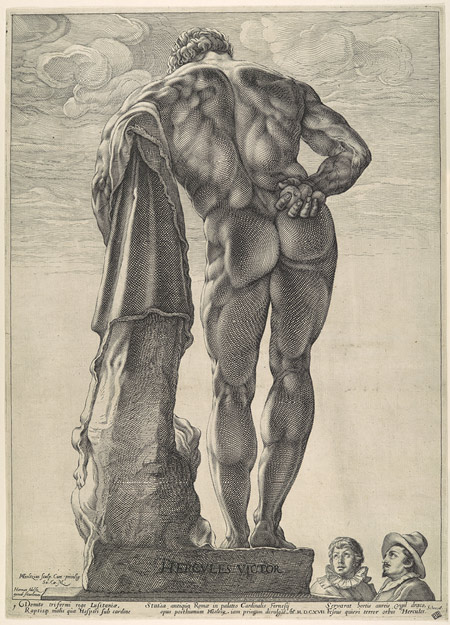 Part of the series {name }.